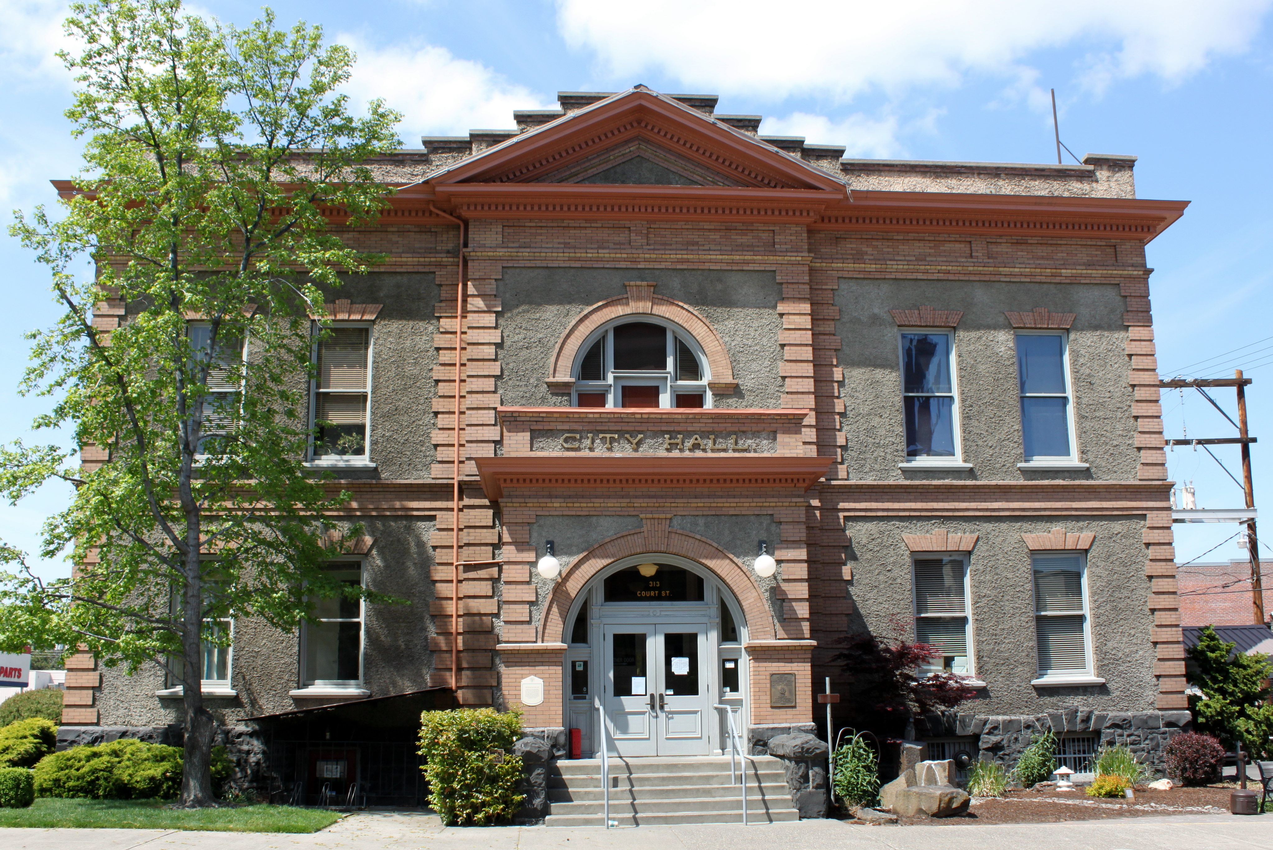 Picture of The Dalles City Hall.